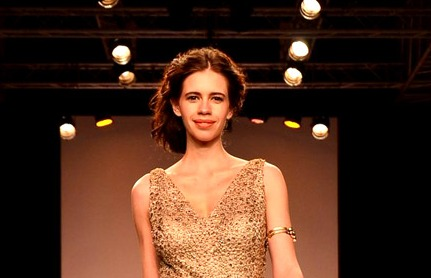 Kalki Koechlin walks the ramp at the Lakme Fashion Week (2014)